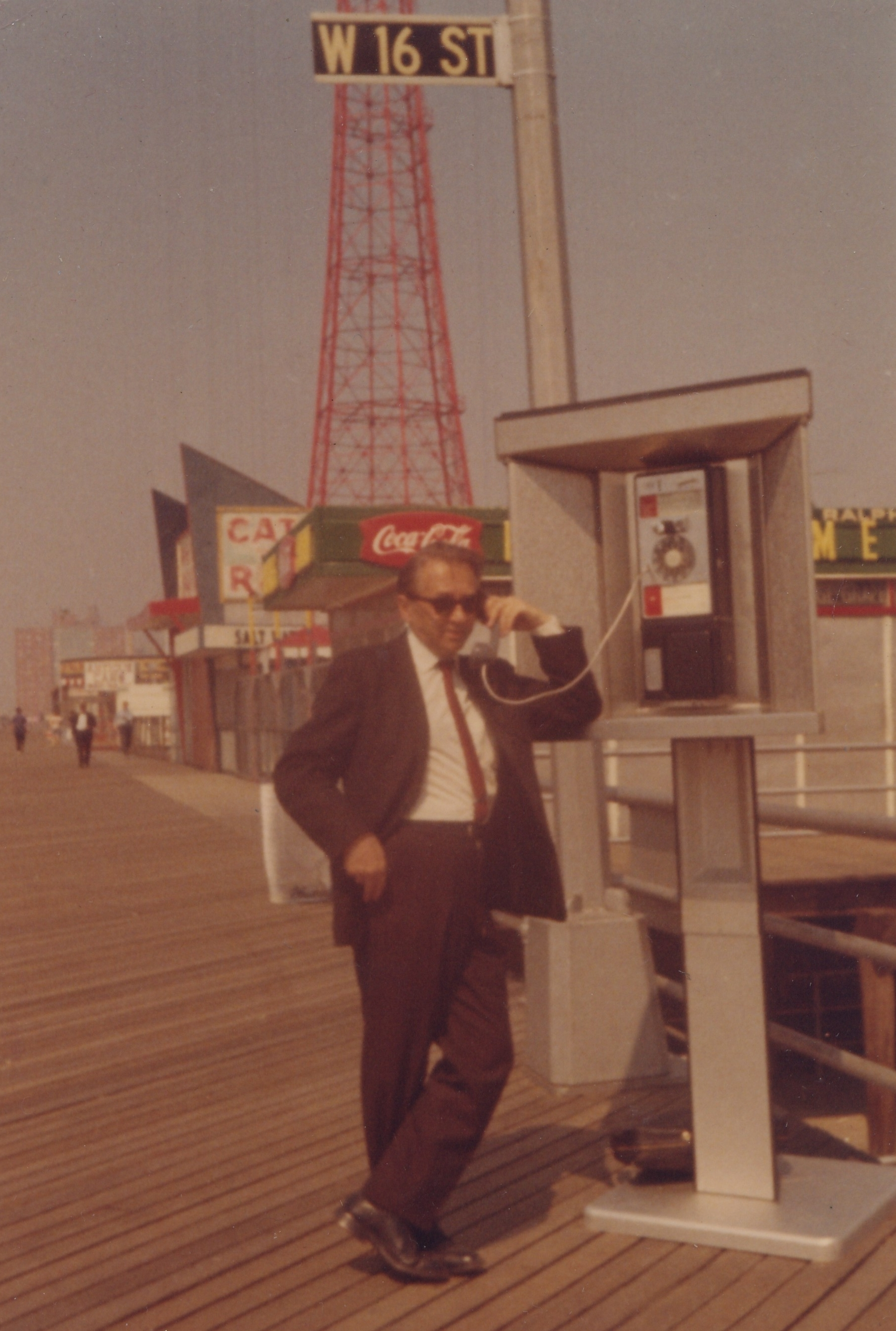 Abraham Shulman, the journalist and writer, in 1967 or 1968.